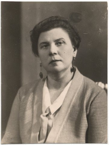 Formal portrait of Emilija Benjamin taken in a photo-salon in the 1920s.